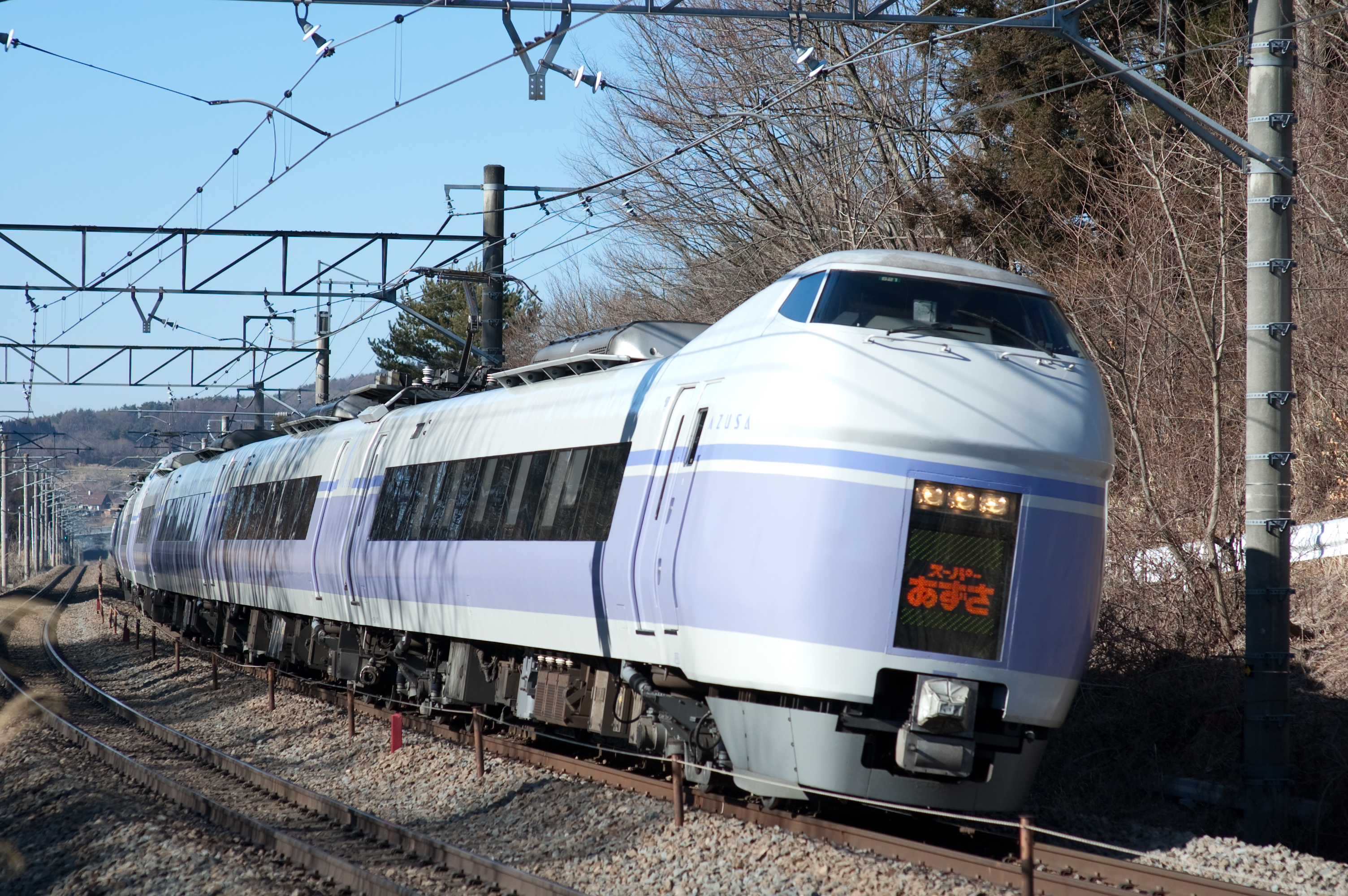 A JR East E351 series EMU on a Super Azusa limited express service on the Chuo Main Line